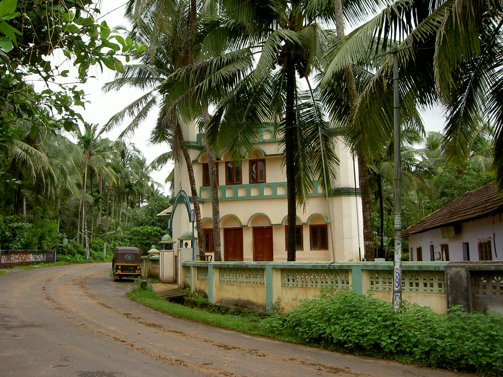 Countryside with mosque, Pulikkanny, Kerala, India.